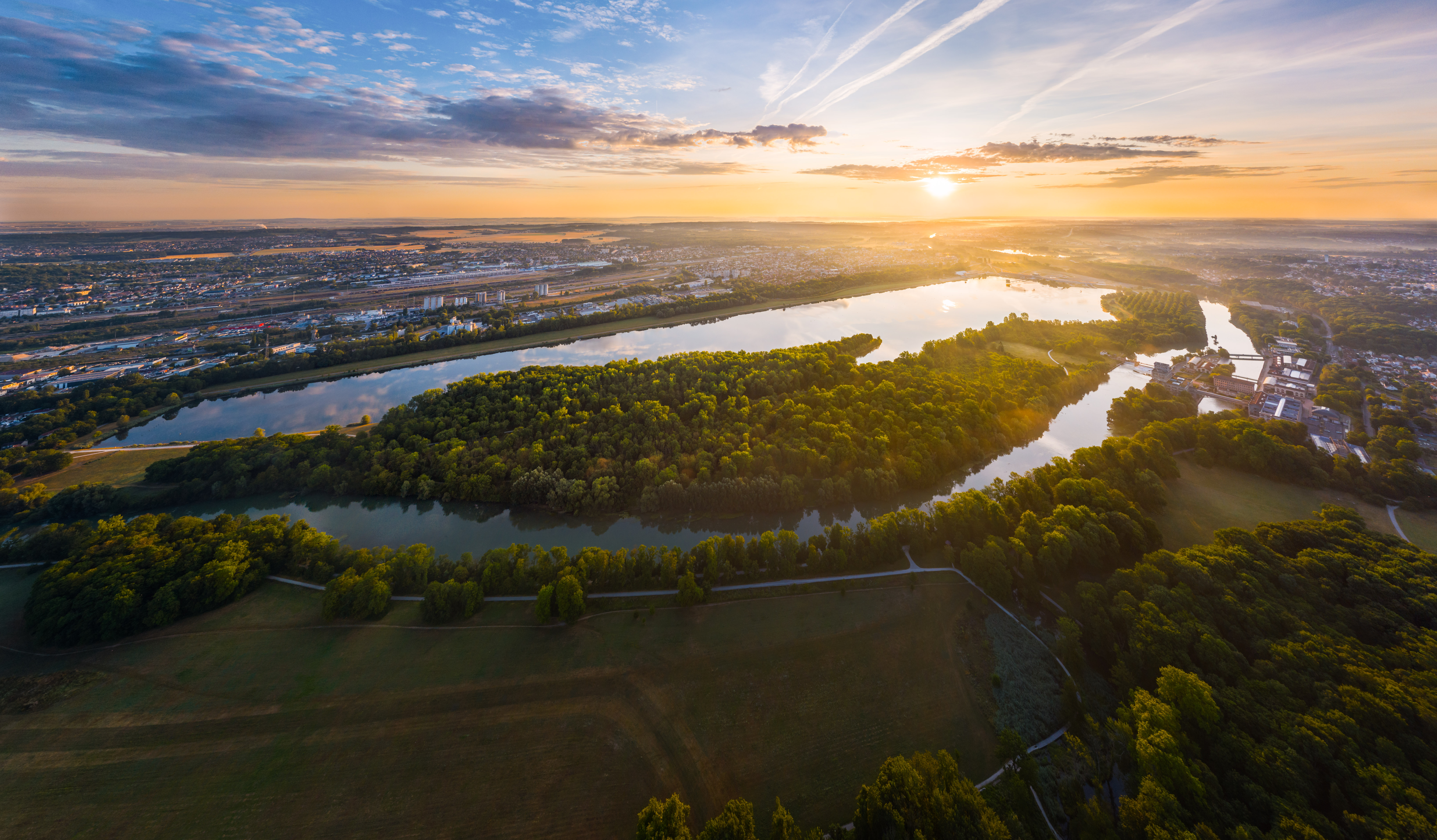 Nautical activities center of Vaires-sur-Marne and Torcy at sunrise, where kayaking and canoeing competition of the Paris 2024 summer olympics will be held.